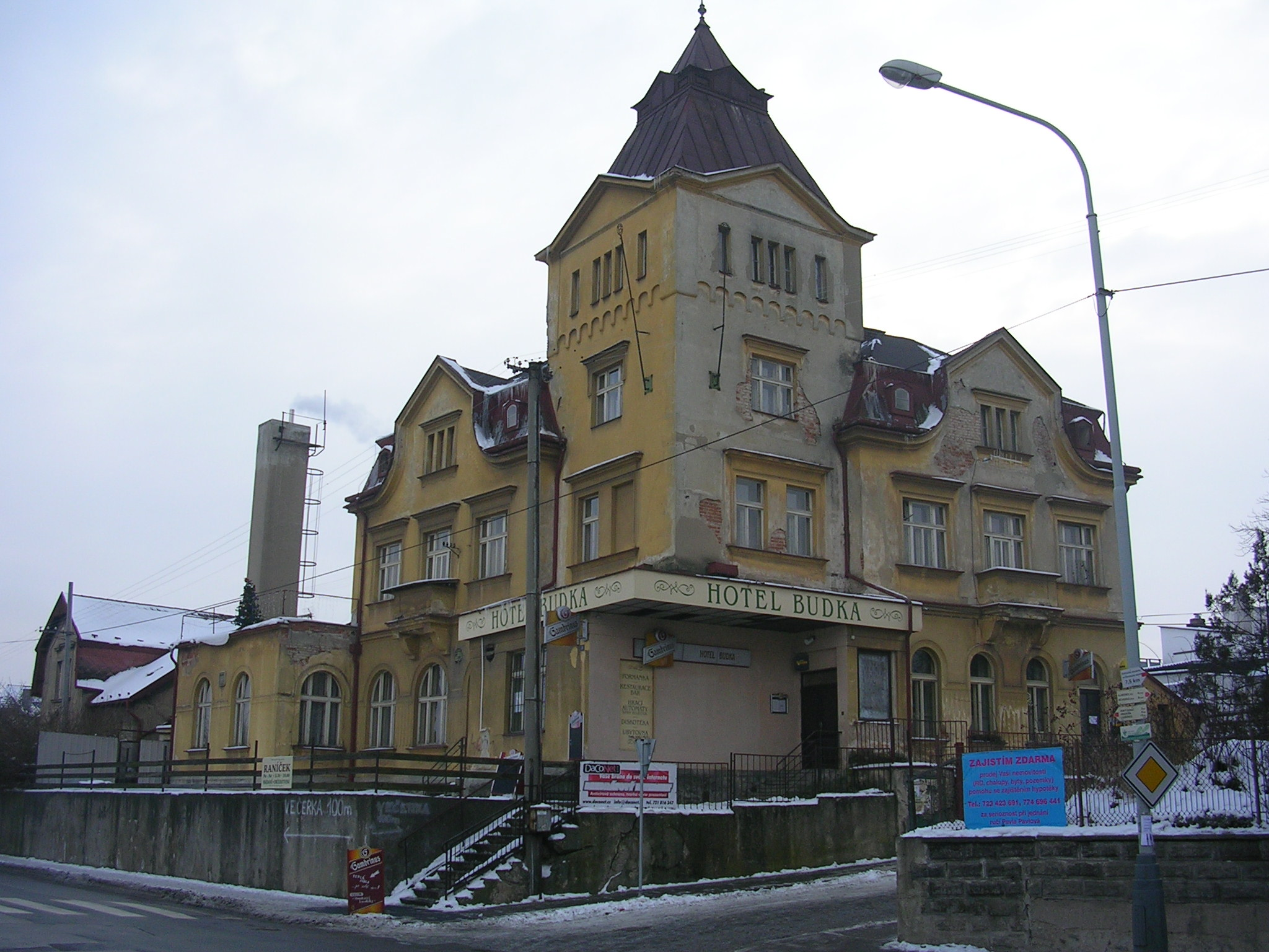 Úvaly, the Czech Republic.